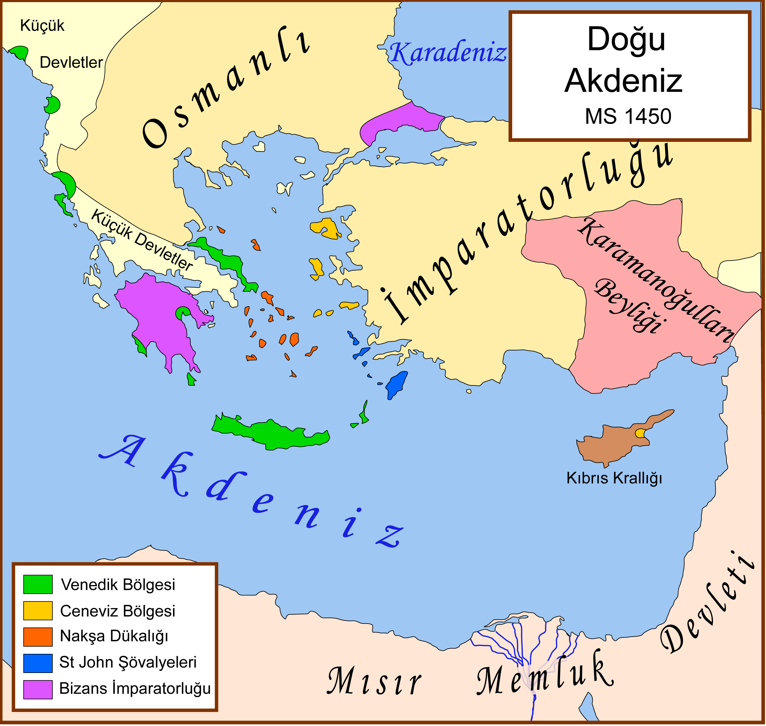 A political map of the eastern Mediterranean Sea, in 1450.